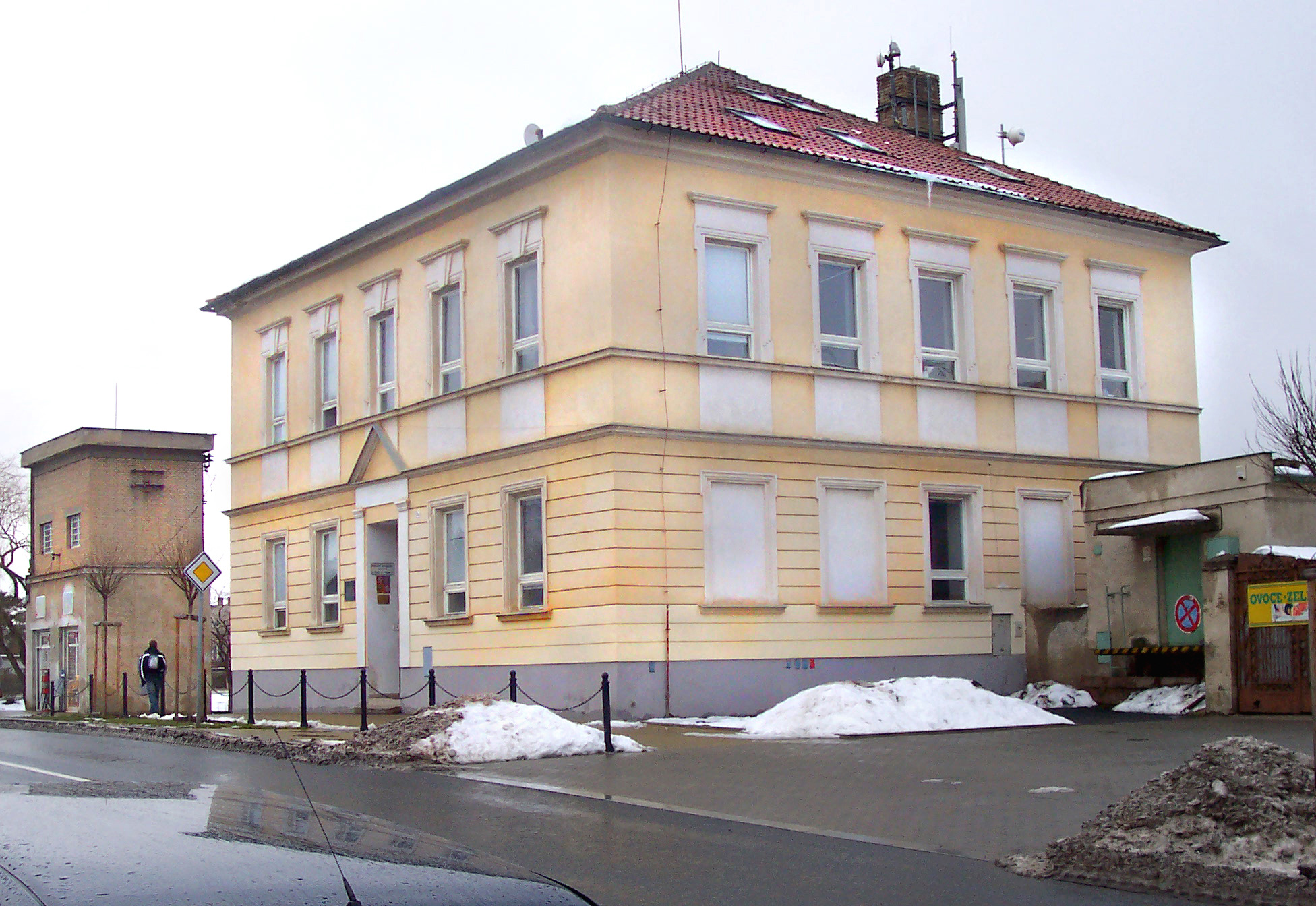 Old school at Kunratice, Prague